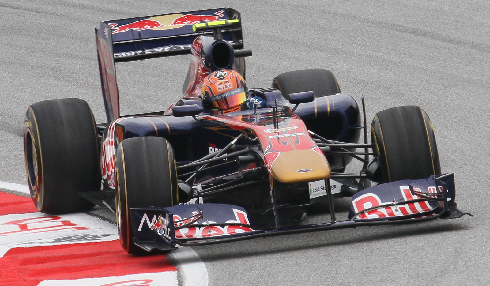 Formula One 2011 Rd.2 Malaysian GP: Jaime Alguersuari (Toro Rosso) during the qualify session on Saturday.